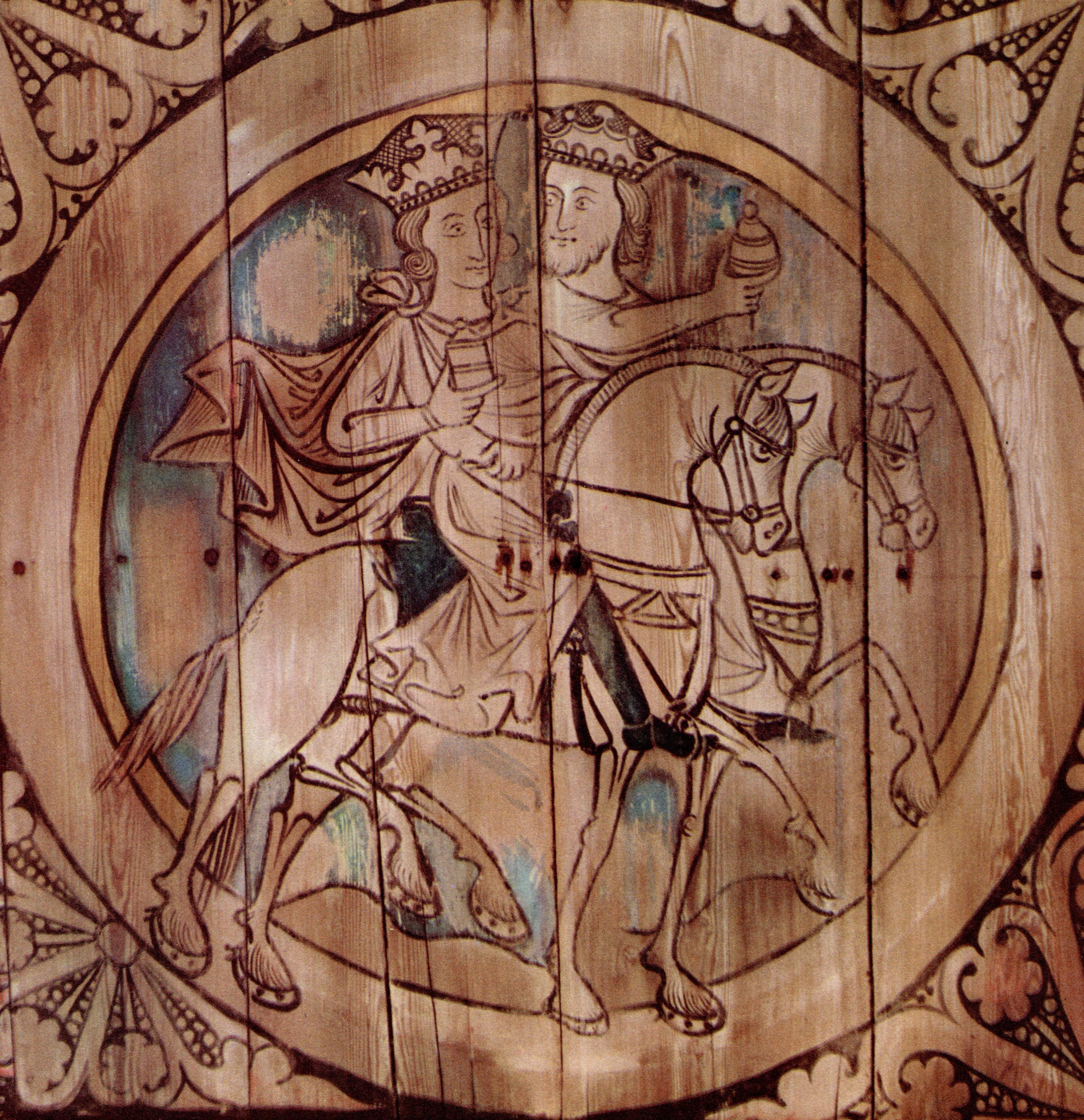 Travelling kings, Dädesjö church, Sweden